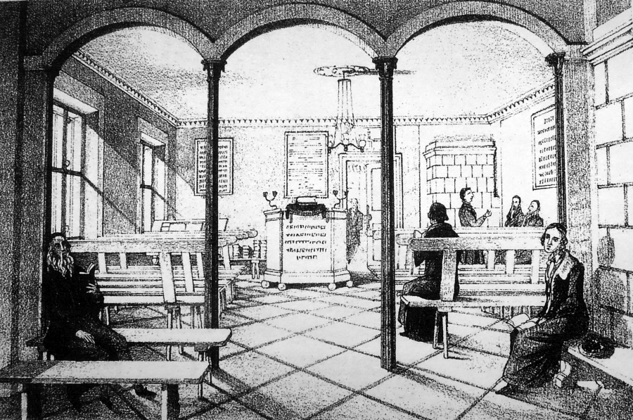 Chapel of the Institute for Jewish converts of the London Society for Promoting Christianity Amongst the Jews at Warsaw